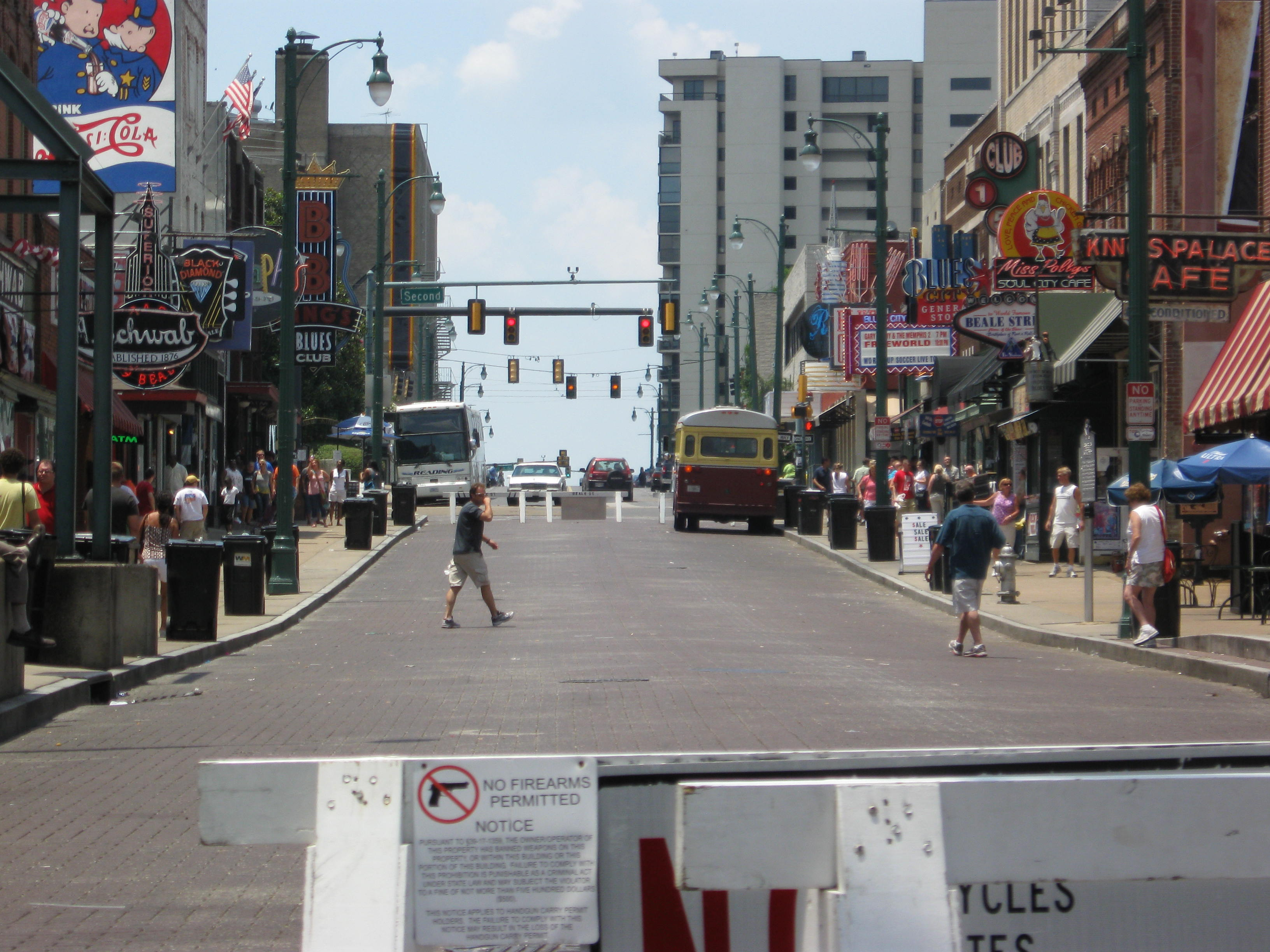 Beale St. Memphis, TN